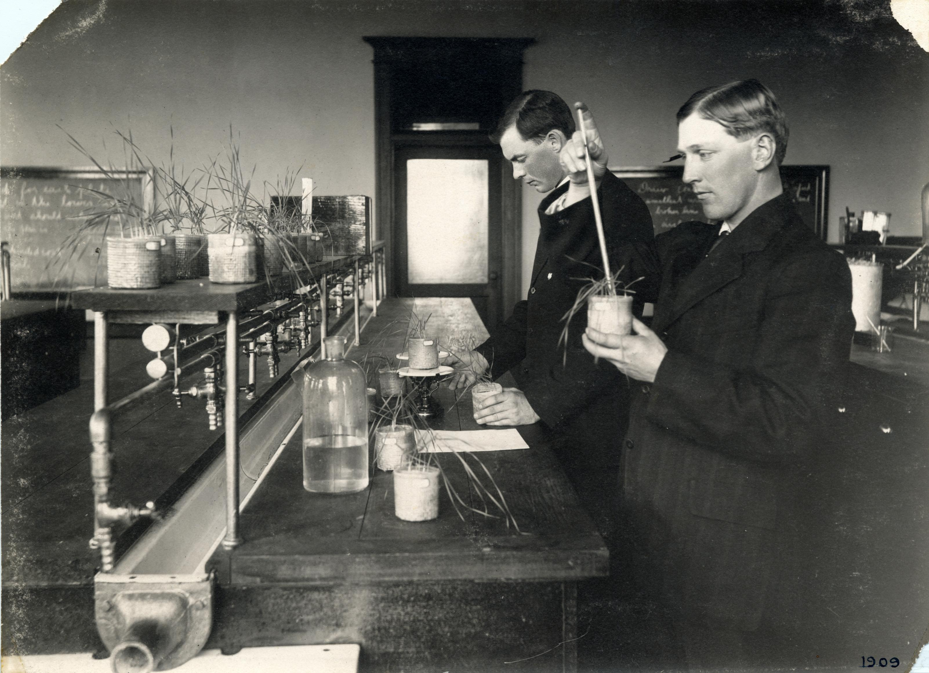 Description/Notes: Agronomy students are testing soil fertility and plant growth under various soil conditions in the lab. Original Collection: Harriet's Collection Item Number: HC0937 You can find this image by searching for the item number by clicking Want more? You can find more We're happy for you to share this digital image within the spirit of The Commons; however, certain restrictions on high quality reproductions of the original physical version may apply. To read more about what “no known restrictions” means, please visit the or contact staff at the OSU Special Collections & Archives Research Center for details.